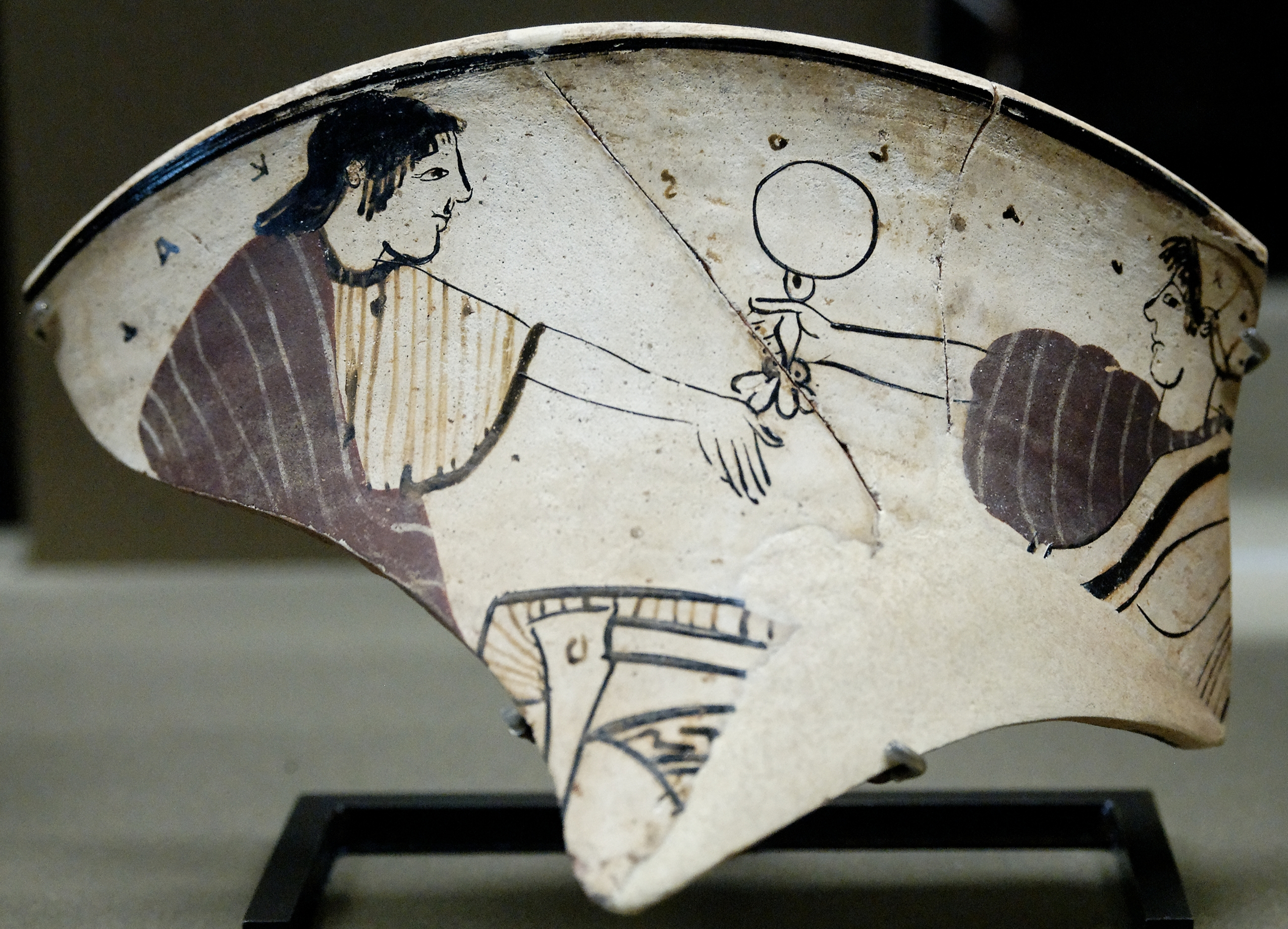 Gynaeceum scene: women with a mirror. Fragment of an Attic white-ground vase, ca. 480–470 BC.